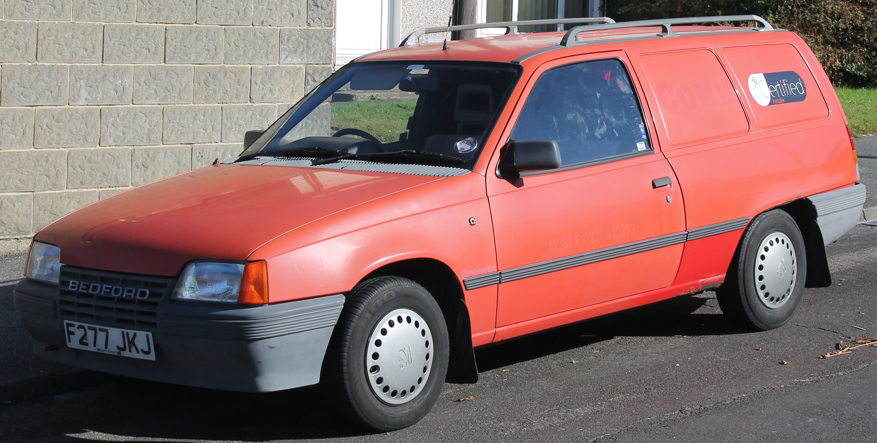 Made my day seeing this, a proper timewarp example. Haven't seen a van for years now, especially an earlier Bedford badged example like this one. Amazing to see it's still a working vehicle too, for an installer of some description. Looks rather faded as all old red Vauxhalls do, and still keeping its original wheel trims. I was so pleased to spot this one. Unfortunately not the easiest lighting at this time of year. You can still see the shadows of previous stickers, showing the old style phone number at the back, and Communicar, which is a car security company based locally. Still has original local plates, with old style phone number. Registration number: F277 JKJ ✔ Taxed Expires: 01 November 2014 ✔ MOT Expires: 29 October 2014 Vehicle make :BEDFORD Date of first registration :12 May 1989 Year of manufacture :1989 Cylinder capacity (cc) :1297cc CO₂Emissions :Not available Fuel type :PETROL Export marker :No Vehicle status :Taxed and due Vehicle colour :RED